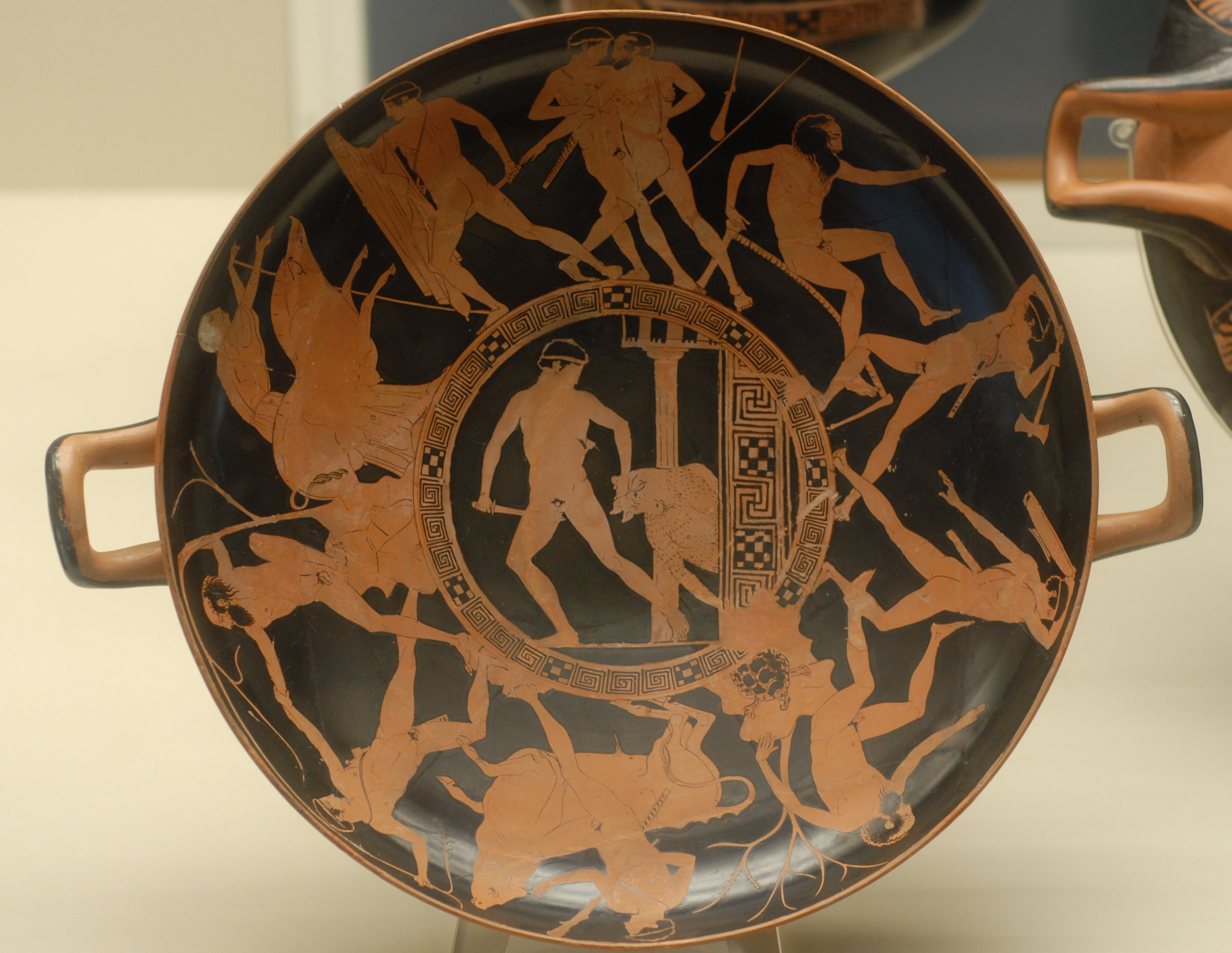 Theseus cycle of deeds: centre, Minotaur; around, clockwise from top, Kerkyon, Prokrustes, Skiron, bull, Sinis, sow. Attic red-figured kylix, ca. 440-430 BC. From Vulci.